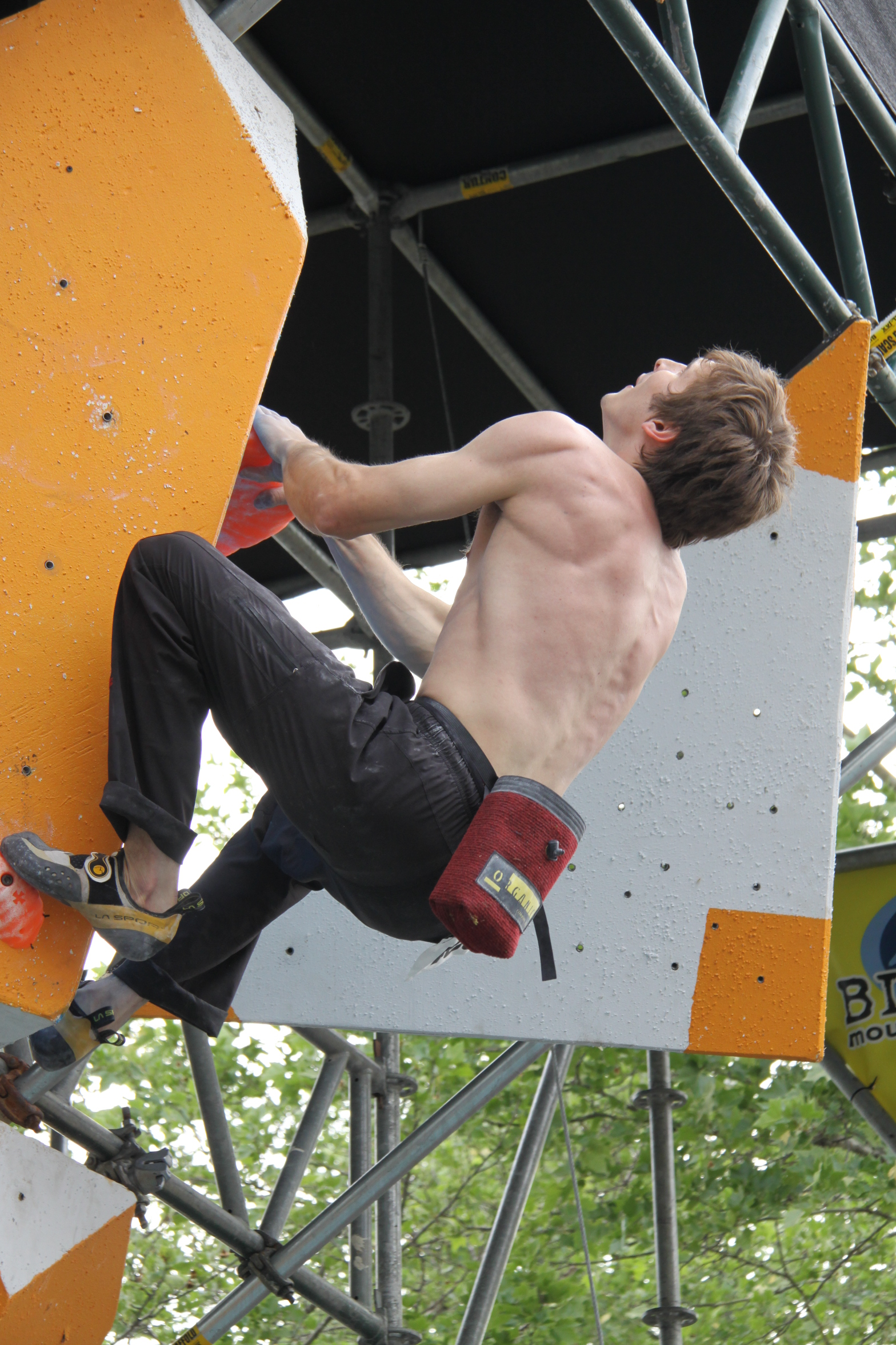 Daniel Woods at Dominion River Rock 2011